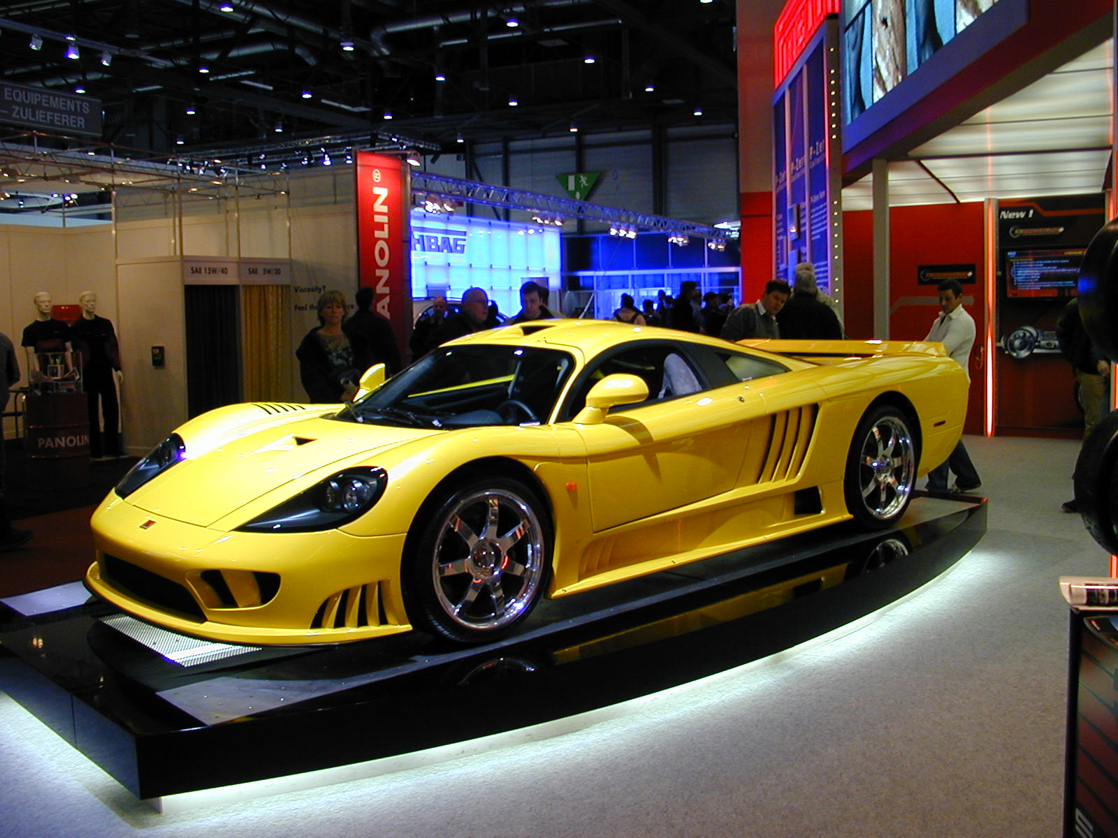 Saleen S7 at the Salon de Genève 2004